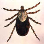 Dermacentor andersoni - the vector of Rocky Mountain Spotted Fever